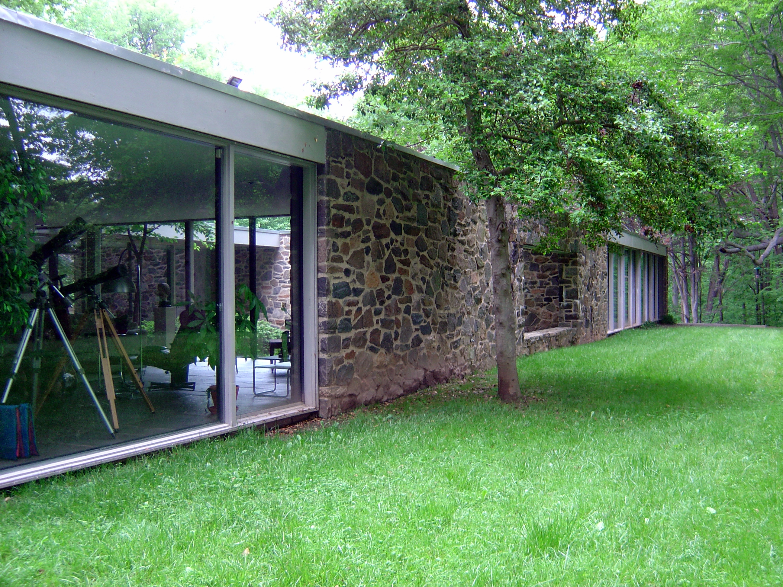 Image of rear facade of Hooper House, taken standing at the corner of the house by the living room, Baltimore, MD.